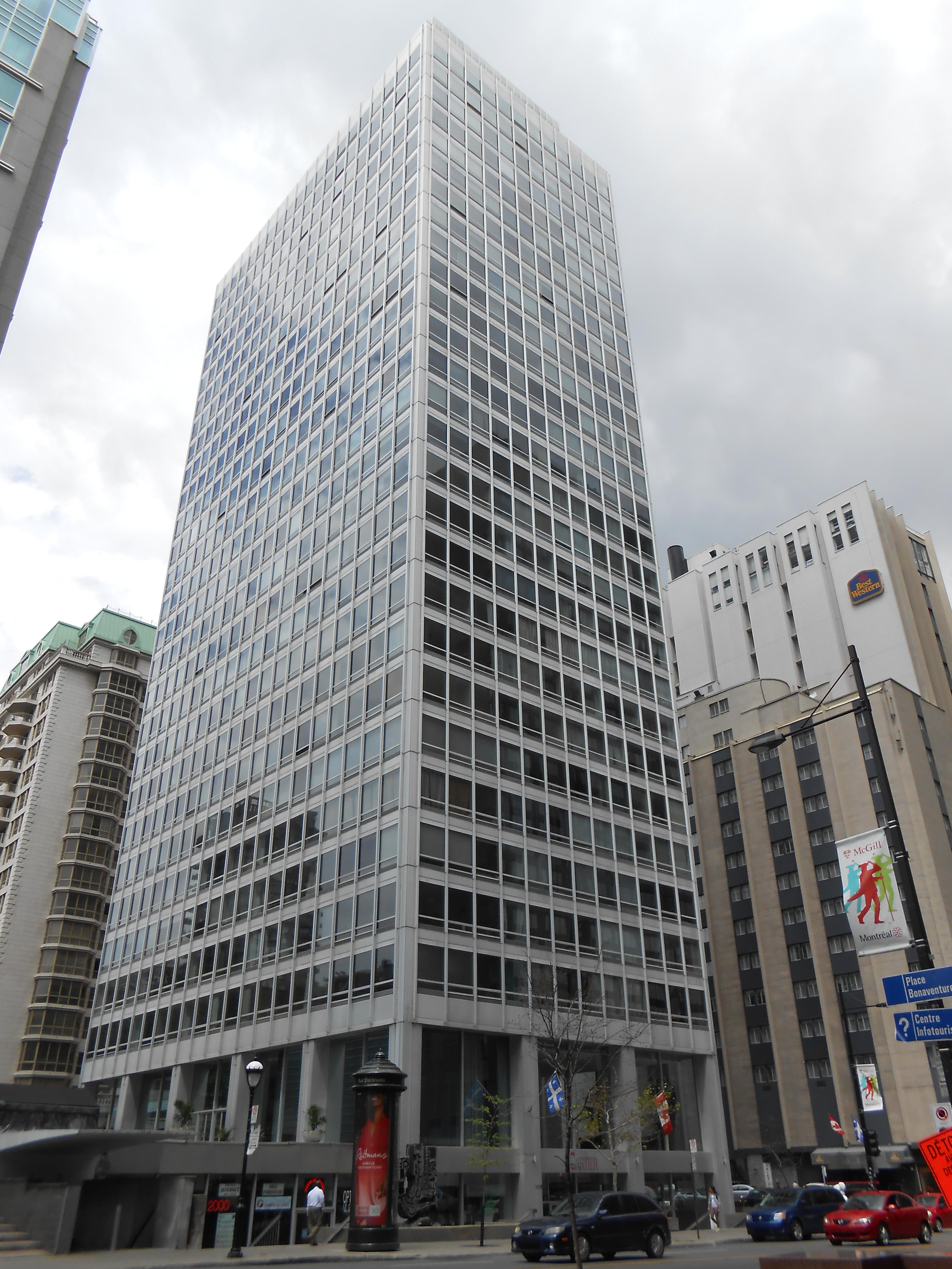 Le Cartier Apartments, 1115 Sherbrooke Street West, Montreal, Quebec, Canada